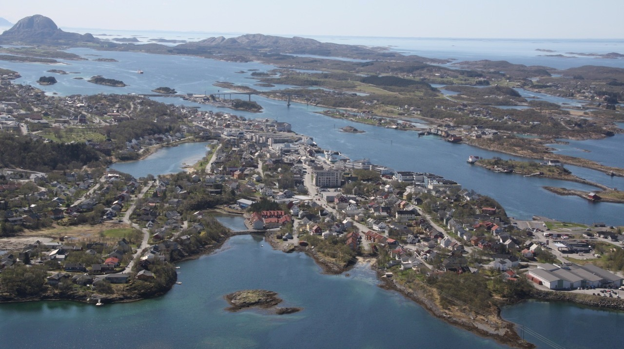 Southward air view of Brønnøysund, Brønnøy, Norway